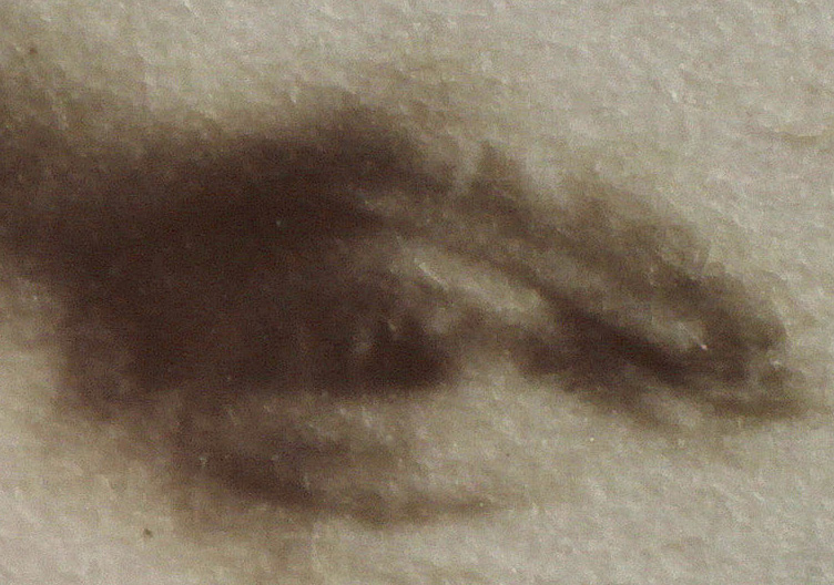 Albumen print detail at 10x: we can see paper fibers trough albumen binder